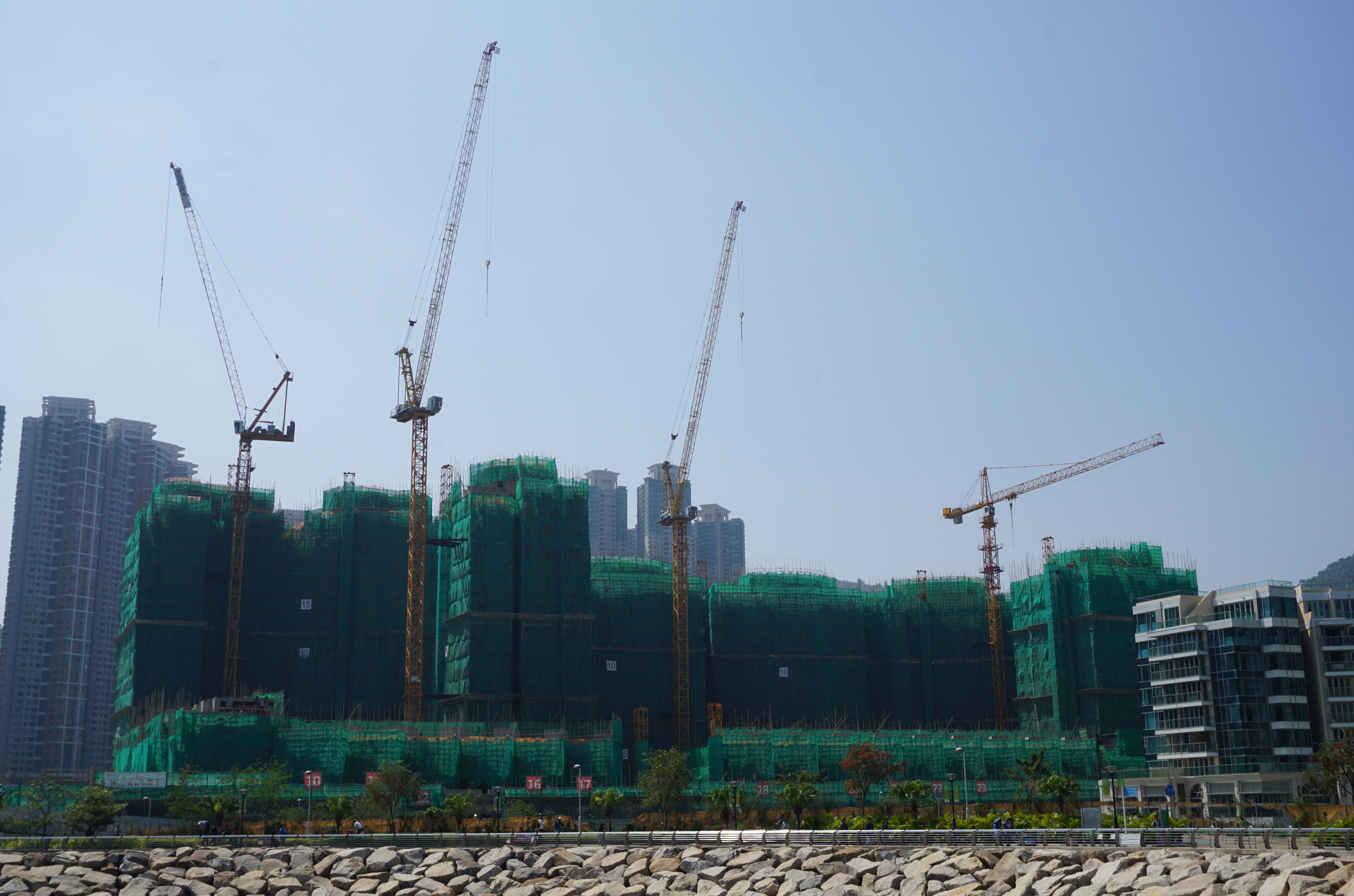 Alto Residences in Tseung Kwan O, Hong Kong.